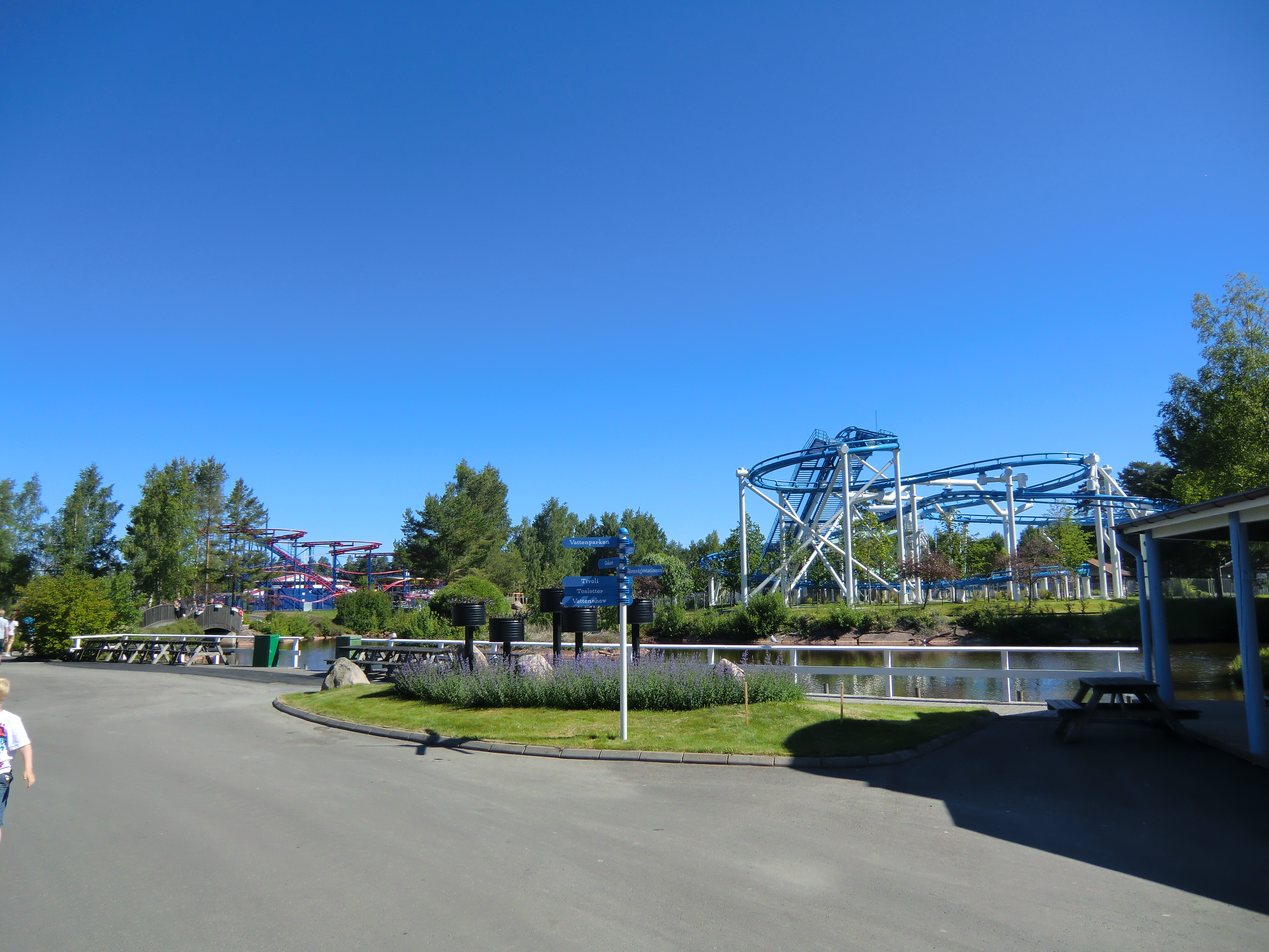 Rollercoasters at Skara Sommarland, Skara Municipality, Västergötland, Sweden